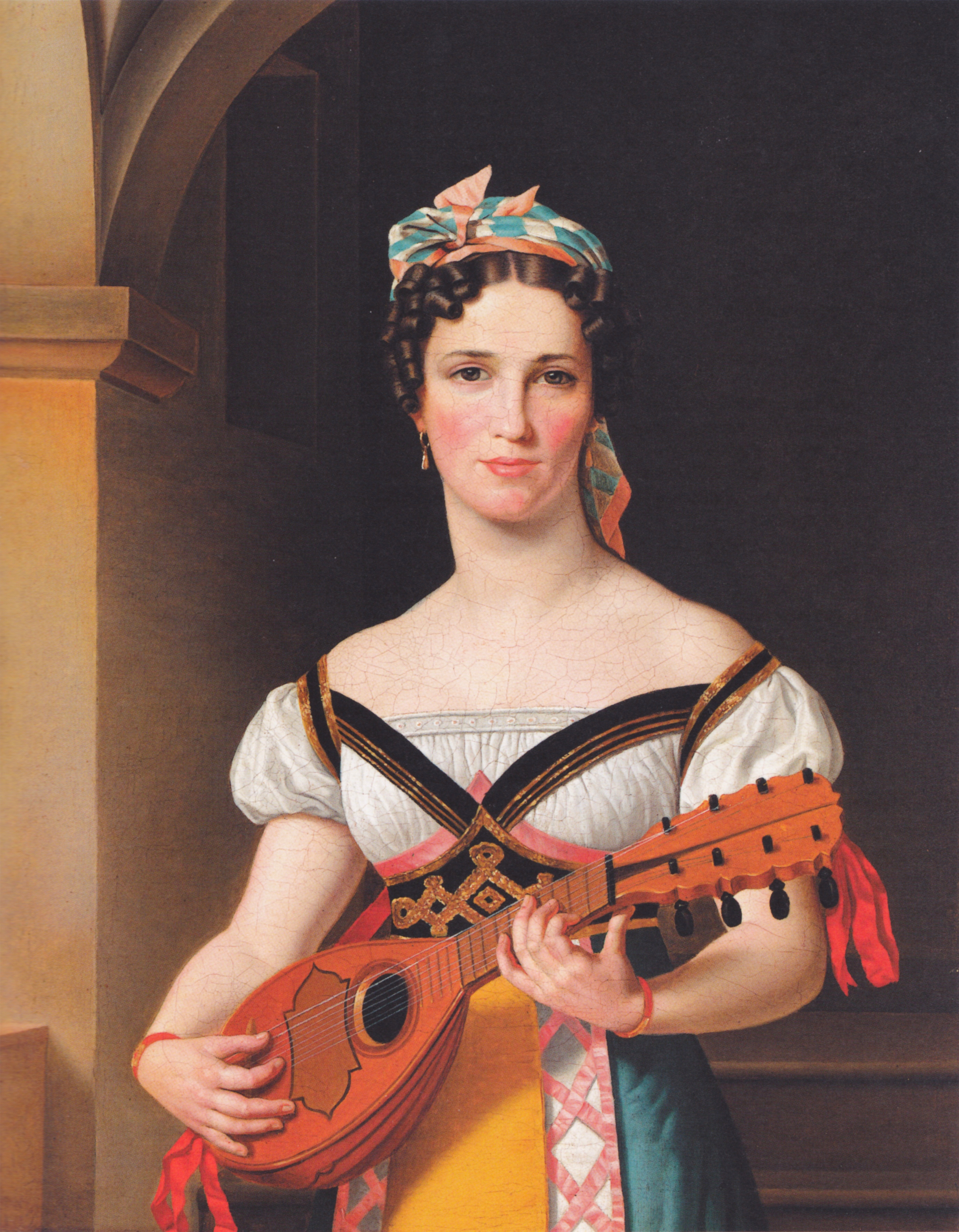 The German singer Emilie Pohlmann as Preciosa. Emilie Pohlmann came from Hamburg. She performed in Copenhagen and the merchant Nathanson paid for this painting of her.